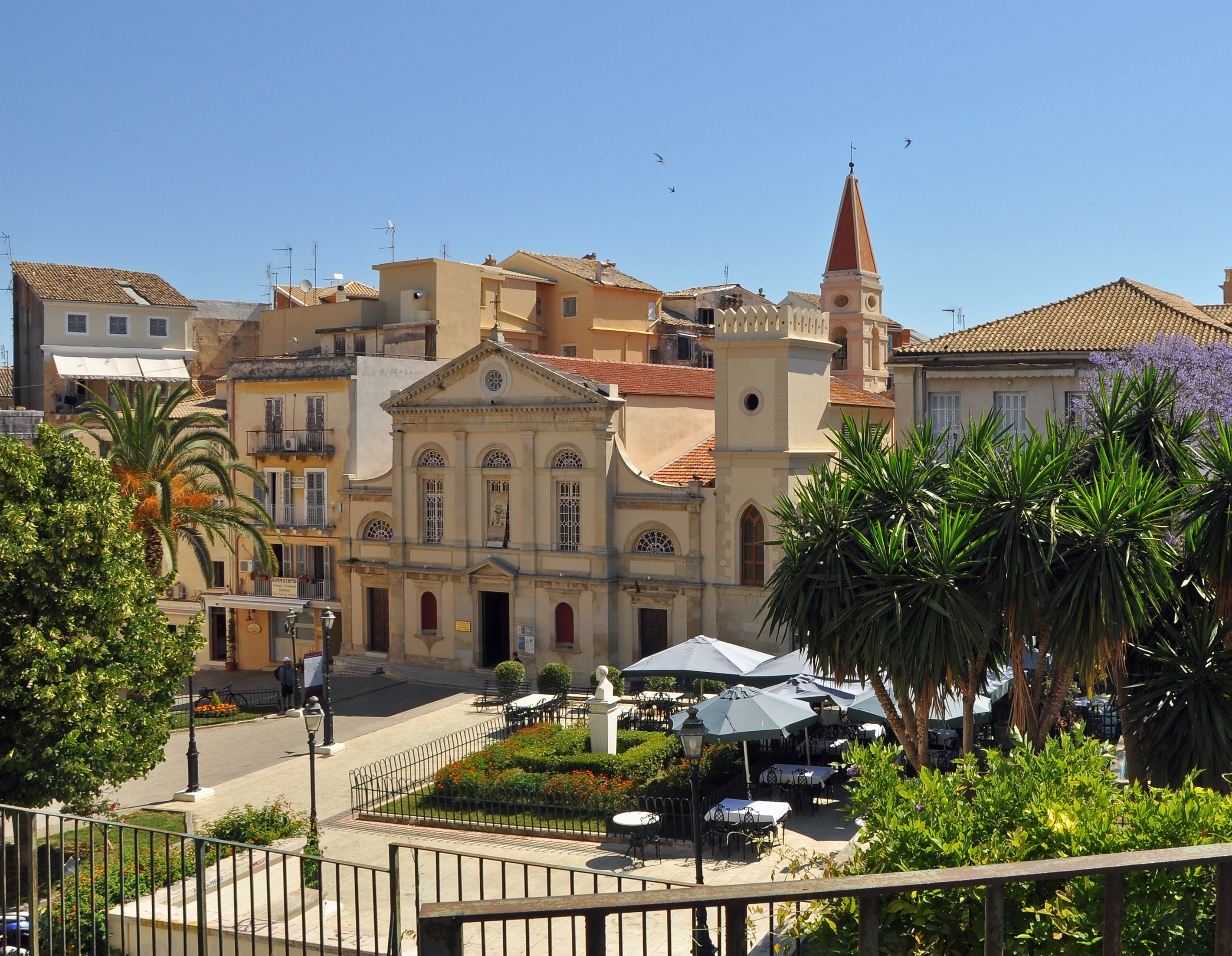 Corfu town (Corfu, Greece): Catholic Cathedral of St James and St Christopher (Duomo) at M. Theotoki Square